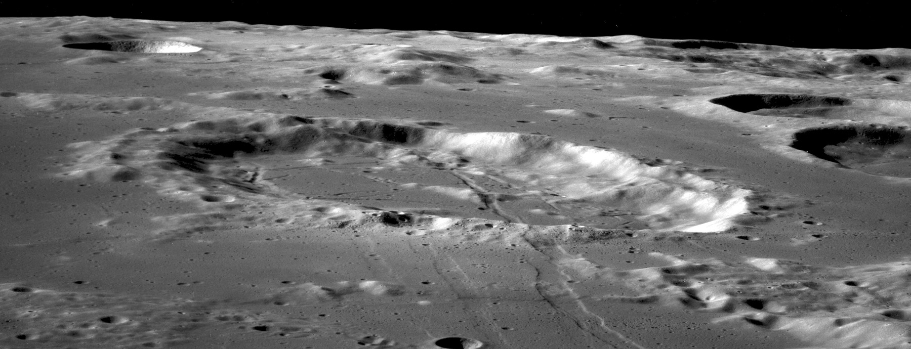 Highly oblique view of Goclenius, on the moon. Facing southeast. Bellot is in left background, and Magelhaens is at right.